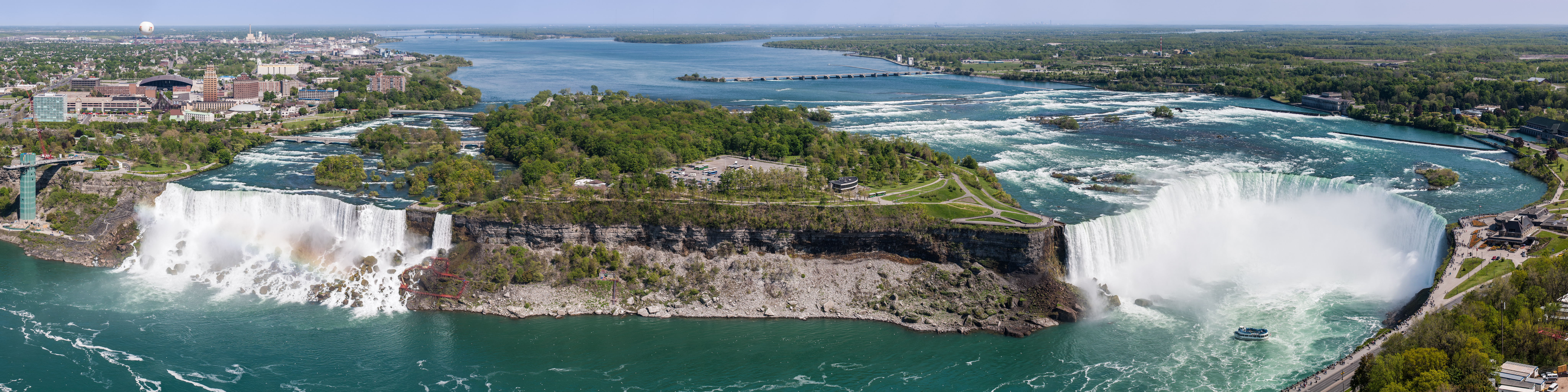 The Niagara Falls in the USA and Canada from Skylon Tower on May 28, 2002.